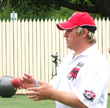 Former Redbacks Batsmen Mark Cosgrove in the nets at Adelaide Oval